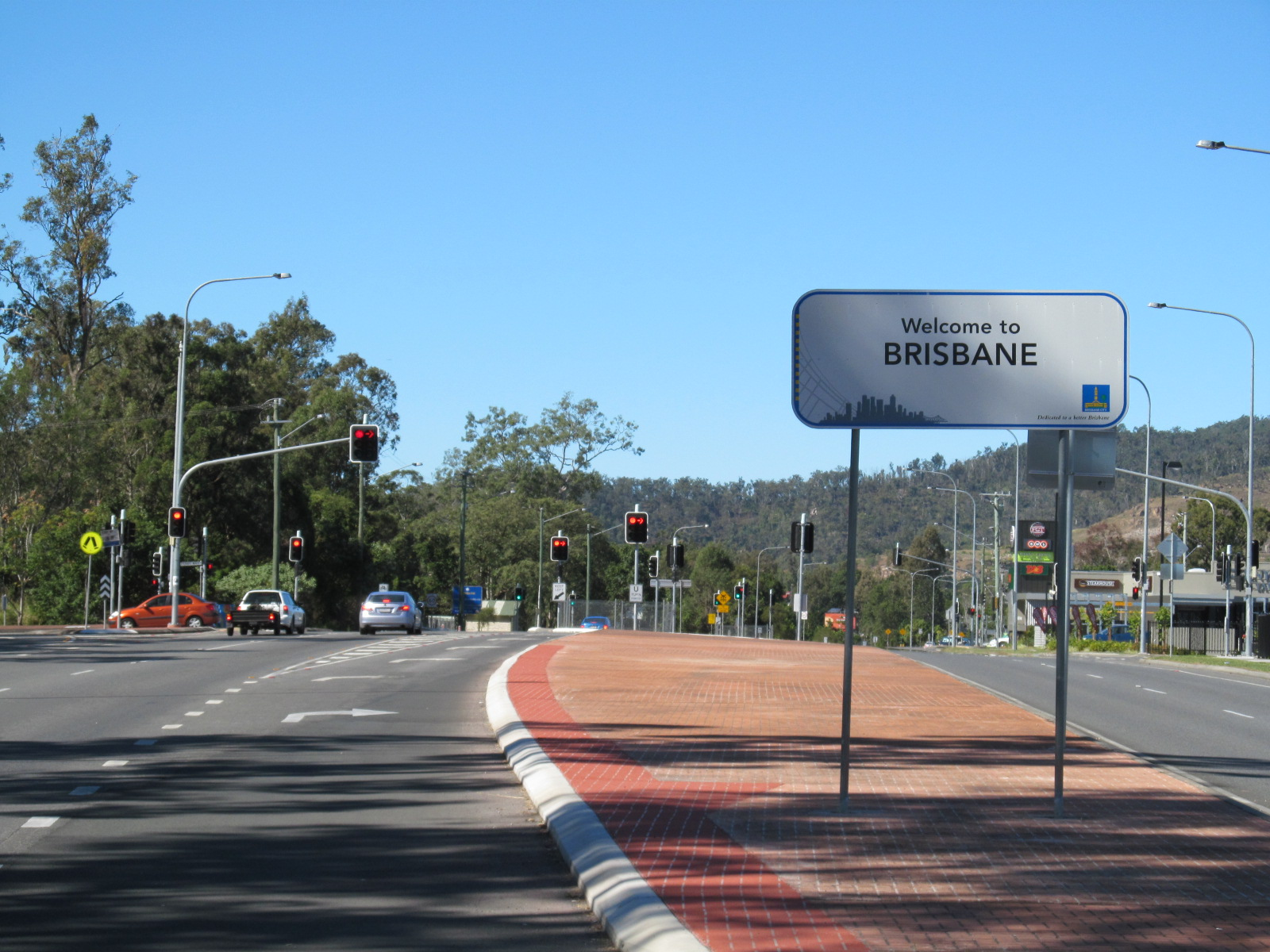 City of Brisbane - welcome sign - Samford Road, Ferny Grove